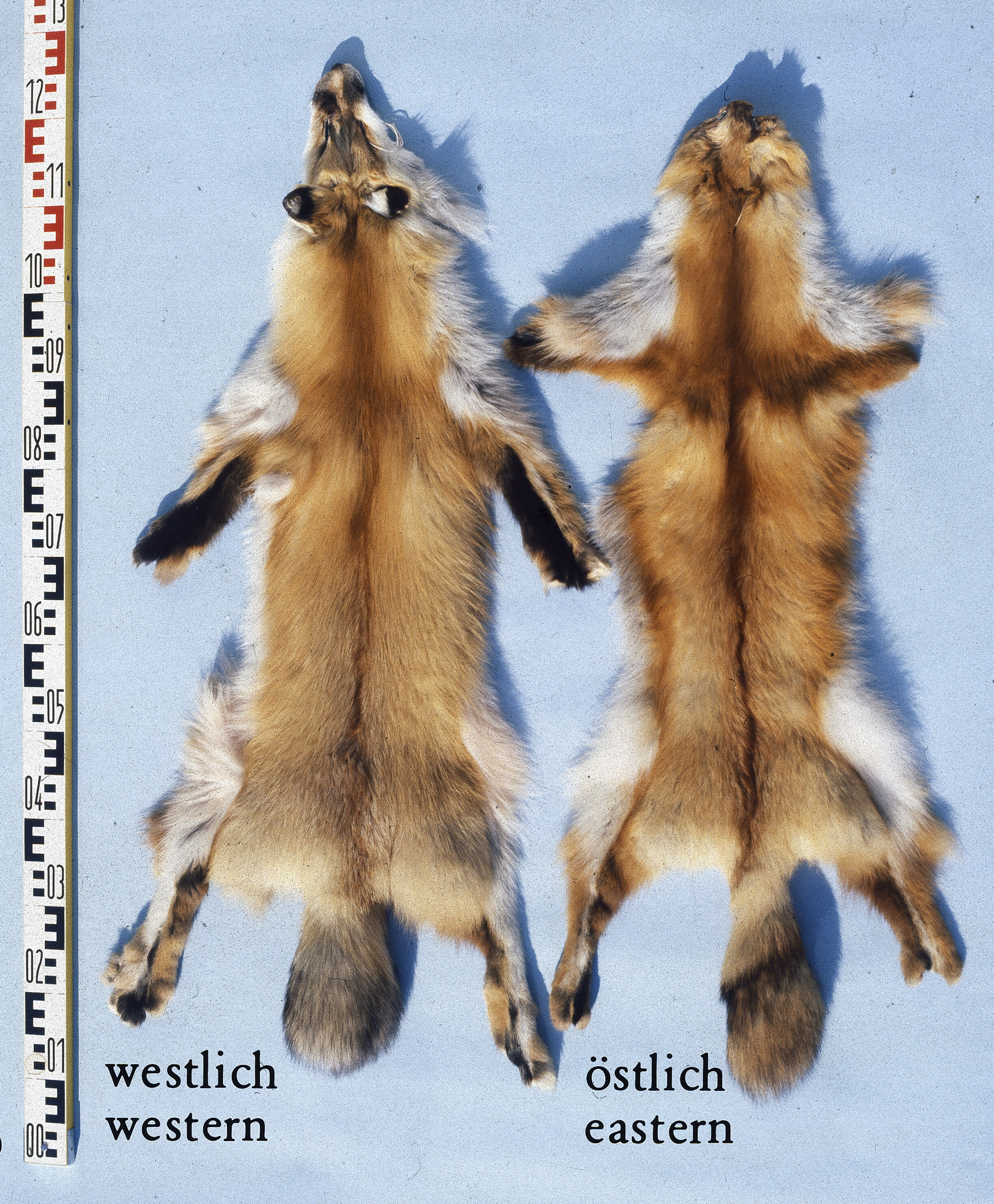 Red fox fur skin (Vulpes vulpes fulva), Canada, western and eastern. Fur skin collection, Bundes-Pelzfachschule, Frankfurt/Main, Germany